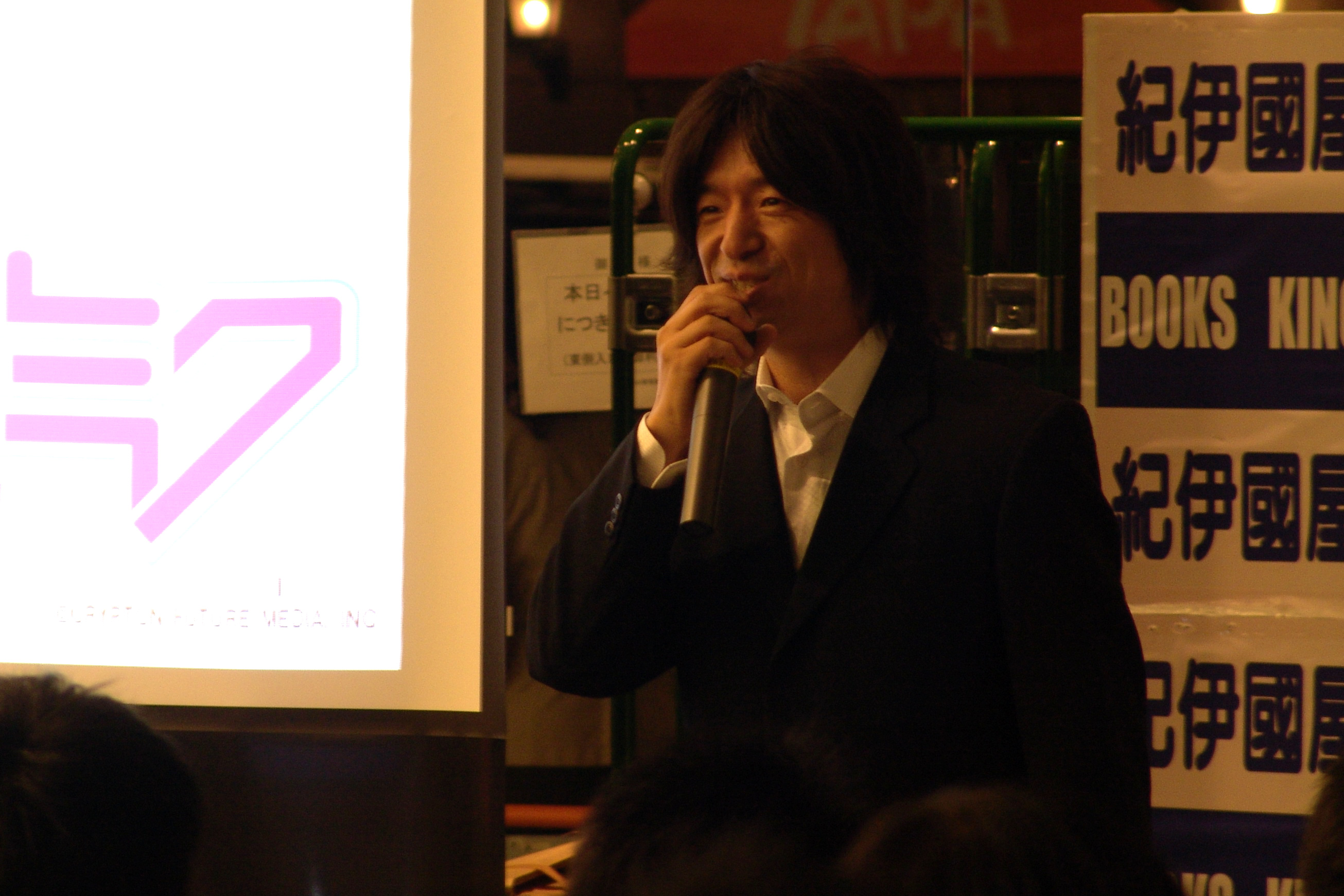 Hiroyuki Itō, President of the Crypton Future Media, sporken at the Science Café "Miku Hatsune Night -- the diva that exceeded the science" in Sapporo City, Hokkaidō on October 12, 2008.